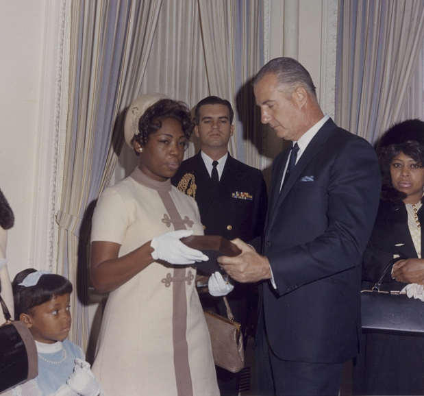 Photograph of Spiro Agnew posthumously awarding the Medal of Honor to Staff Sergeant Clifford C. Sims.